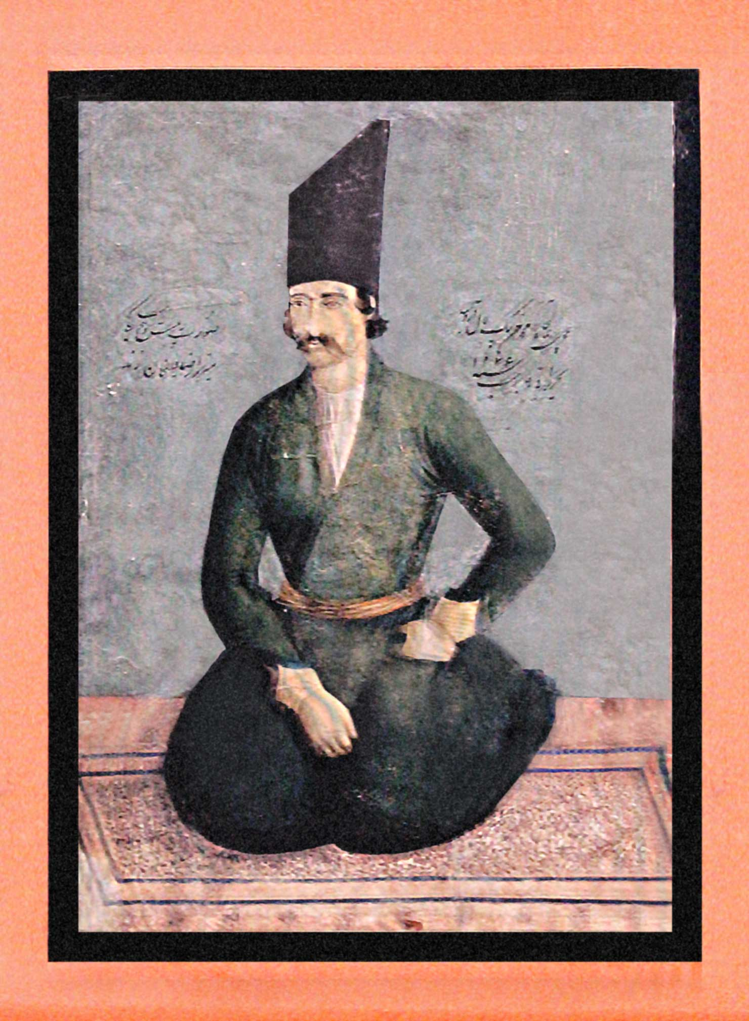 Portrait of Mirza Reza Quli Khan Zand aged 25 - Iran - 1860 - Muhammad Hasan Afshar - Louvre - MAO 799